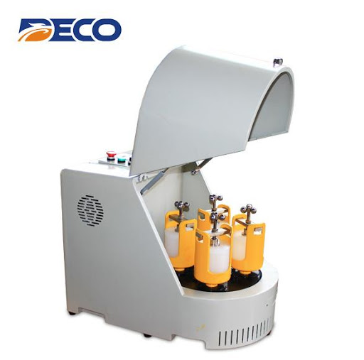 This is a ball mill that exploits the friction and impact energy accumulated by the spheres by means of a centrifugal-rotational movement.